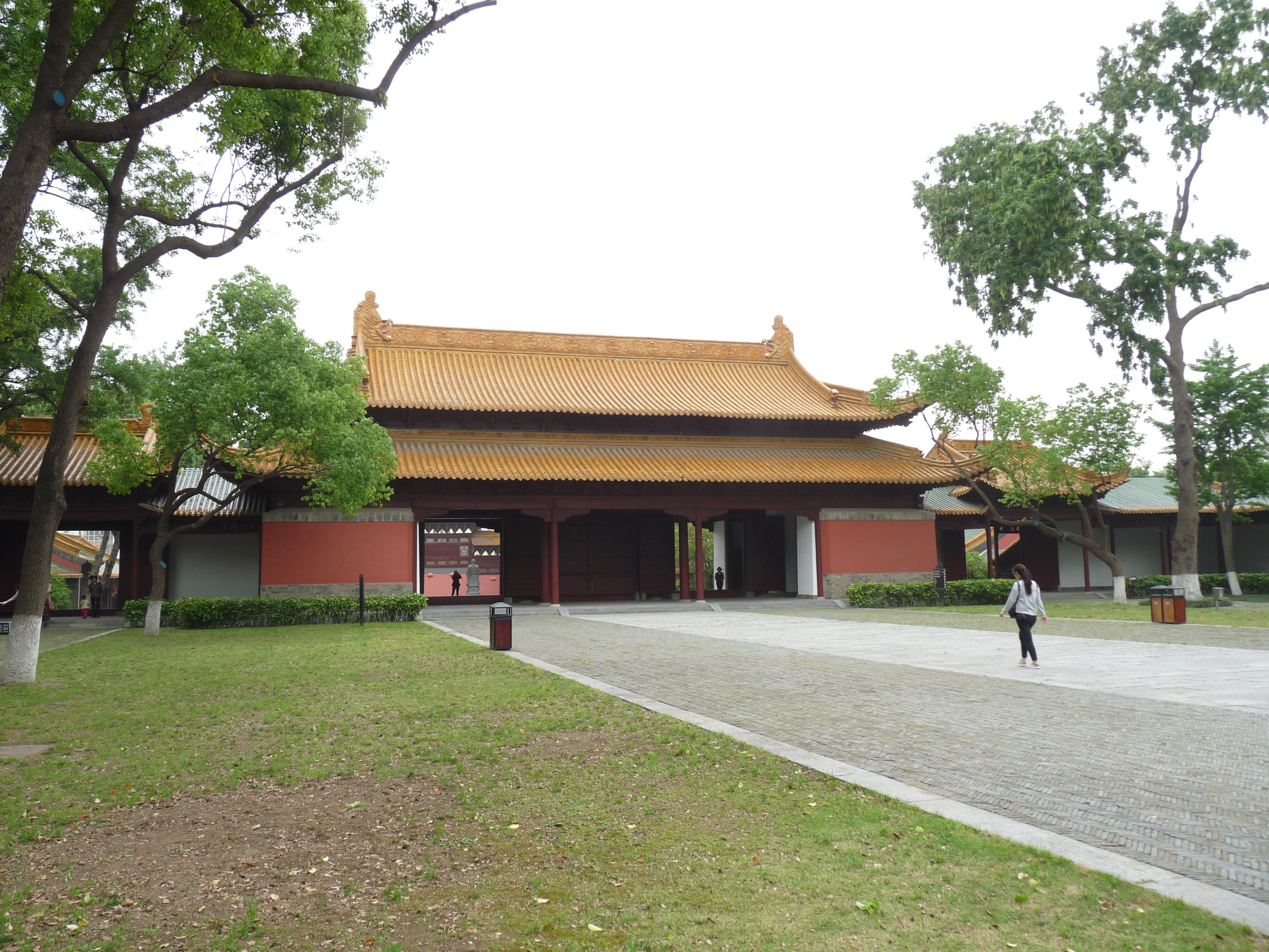 Nanjing - Chaotian Palace